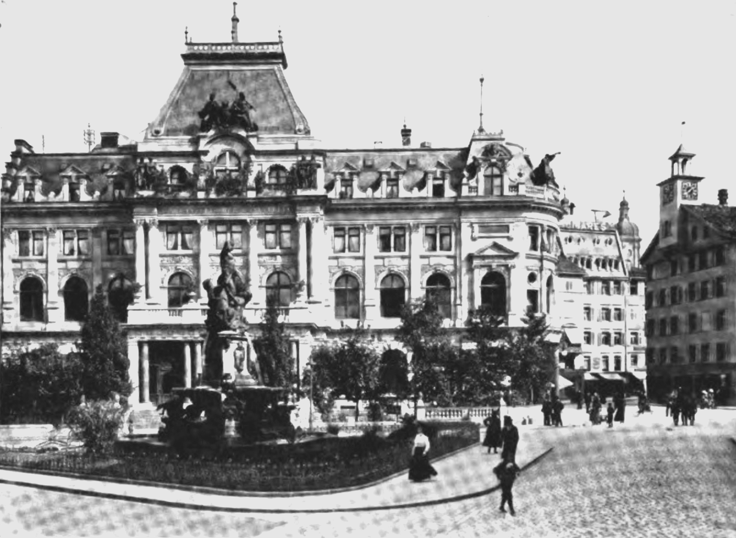 St. Gall / St. Gallen office of Swiss Bank Corporation, one of the two predecessors of UBS AG c.1920